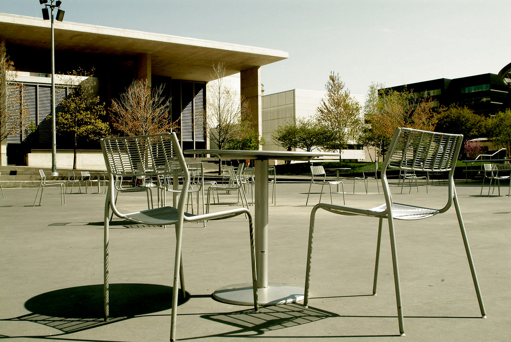 Rosa Park Circle in front of the new Grand Rapids Art Museum